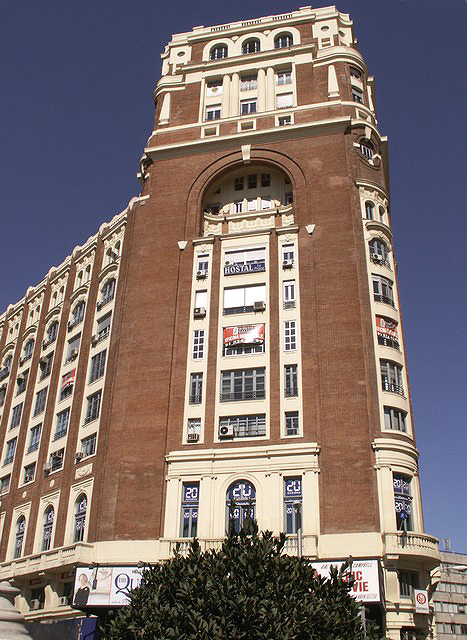 Palacio de la Prensa (literally "Press Palace") in Madrid (Spain). Building was projected in 1924 by Pedro Muguruza Otaño and built from 1925 to 1929.